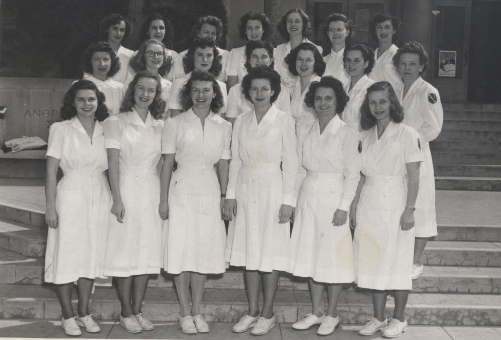 A photograph of the first graduating class of the Department of Physical Therapy at the University of Southern California, 1946.